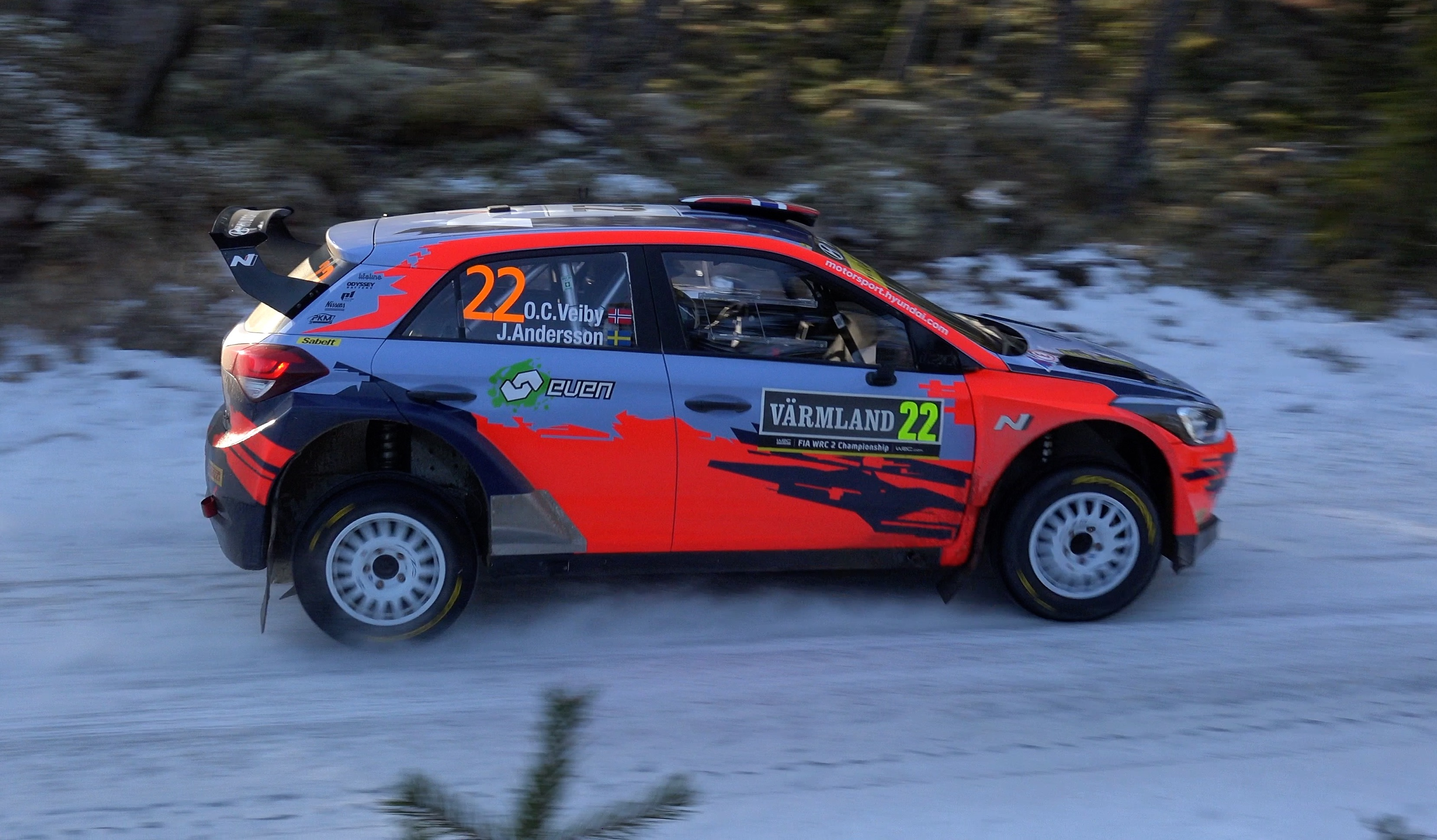 Veiby at Rally Sweden 2020.